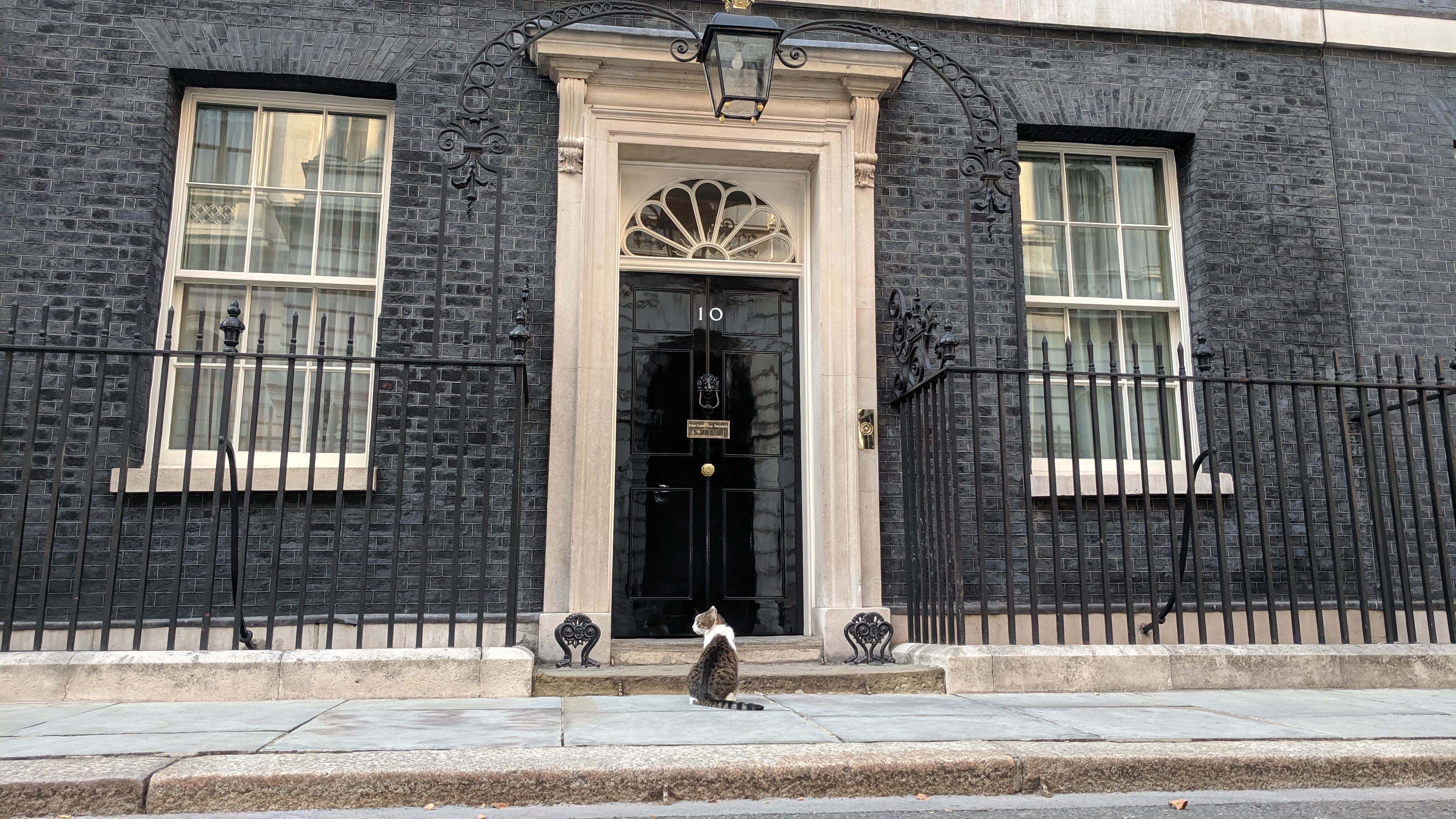 See caption